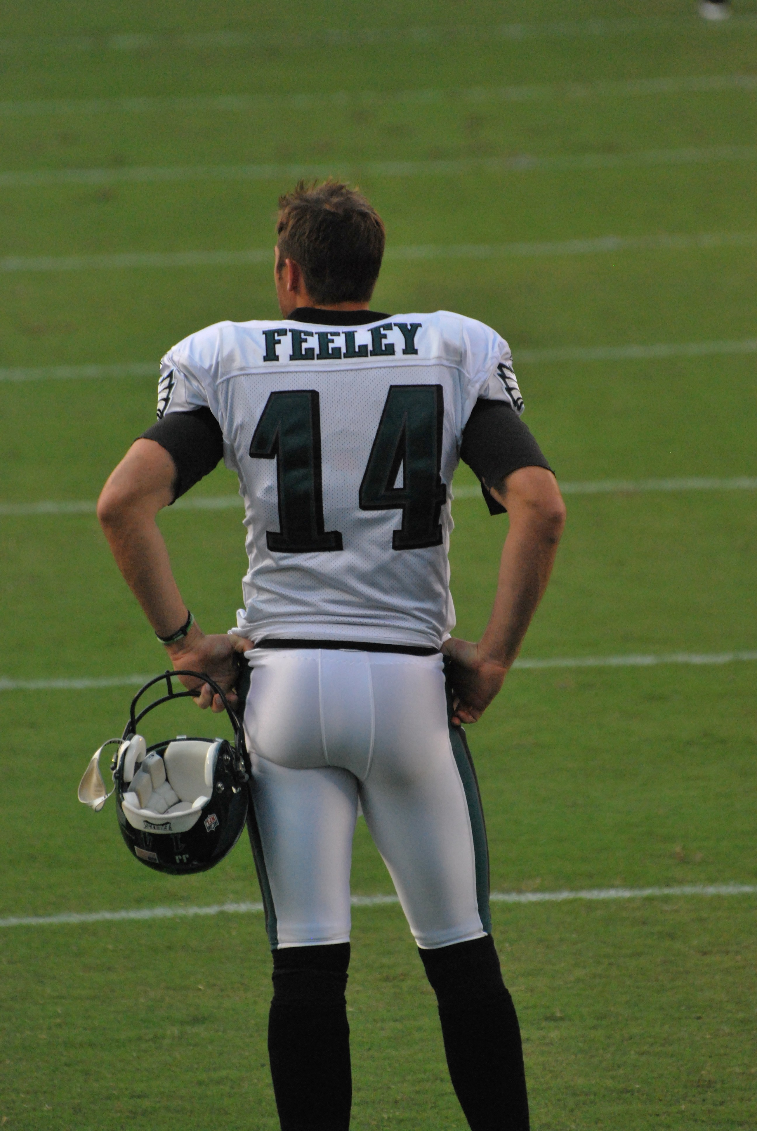 A. J. Feeley in August 2009